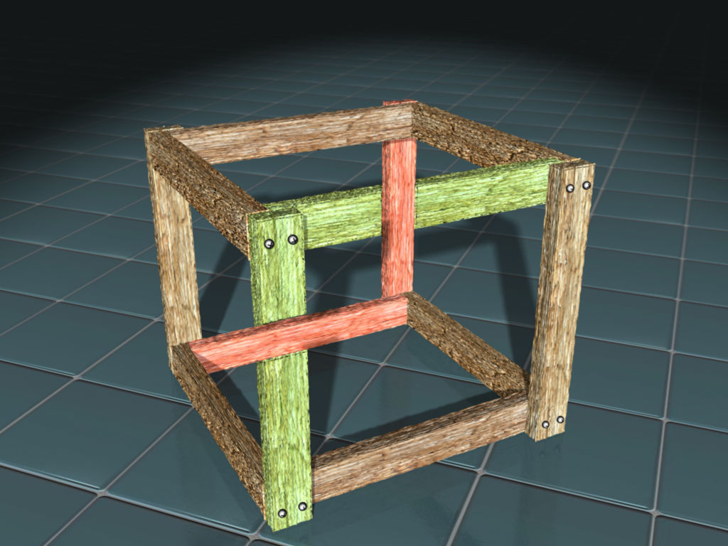 The impossible crate (optical illusion) view 2